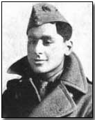 Photograph of Indra Lal "Laddie" Roy, a World War I flying ace.